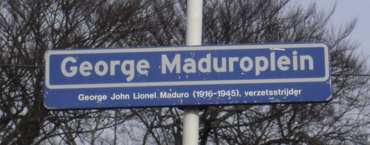 Maduroplein sign, outside of Madurodam, February 19, 2006